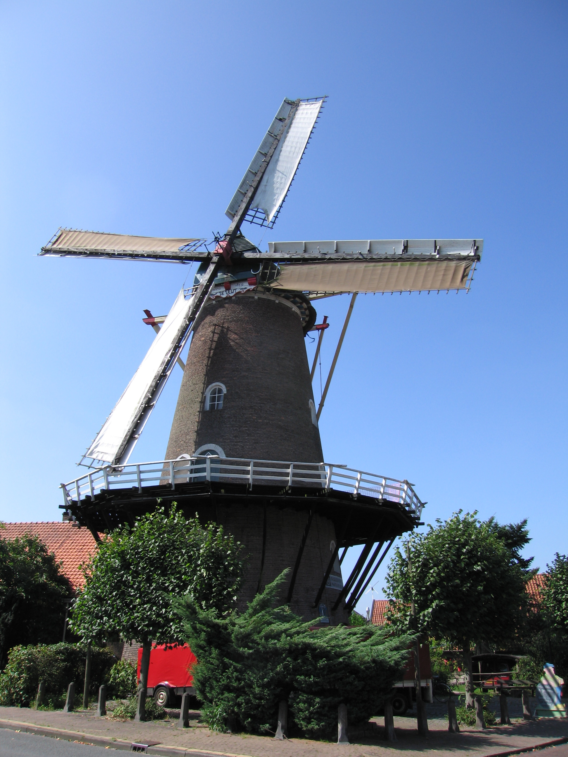 Wageningen's windmill